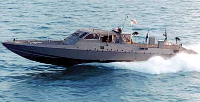 Image of the MK V Special Operations Craft